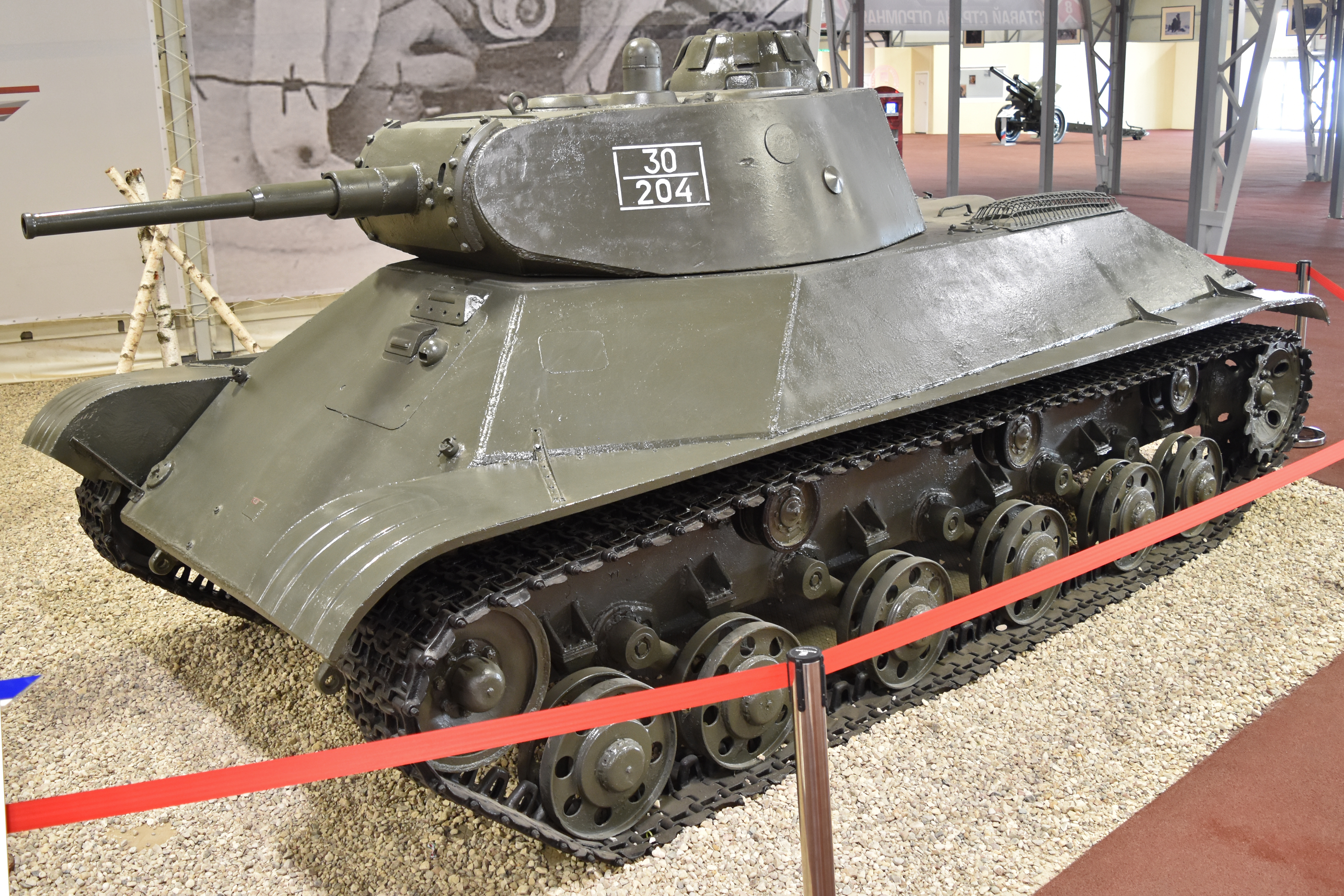 Soviet WW2 era Light Infantry Tank Built:- 1941 to 1942 Total Production:- 69 Main Armament:- 45mm Model 1932/38 20-K gun The T-50 had some advanced features, but was complicated and expensive to produce. Only 69 were built before production moved to simpler designs. One of only two survivors (the other is in Finland), this T-50 is on display in Hall 8 of the Patriot Museum Complex. Park Patriot, Kubinka, Moscow Oblast, Russia. 25th August 2017